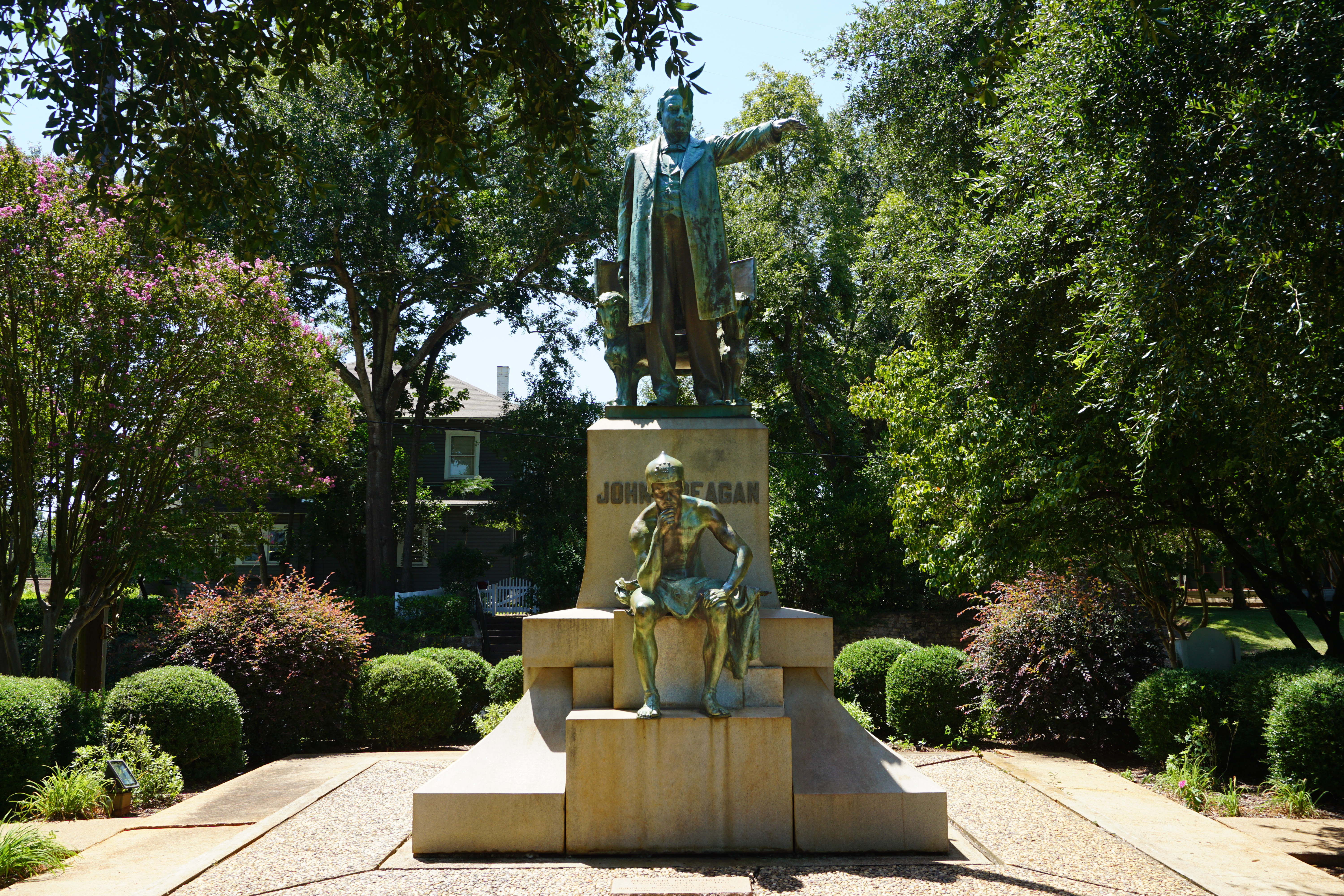 The John H. Reagan Monument in Palestine, Texas (United States).